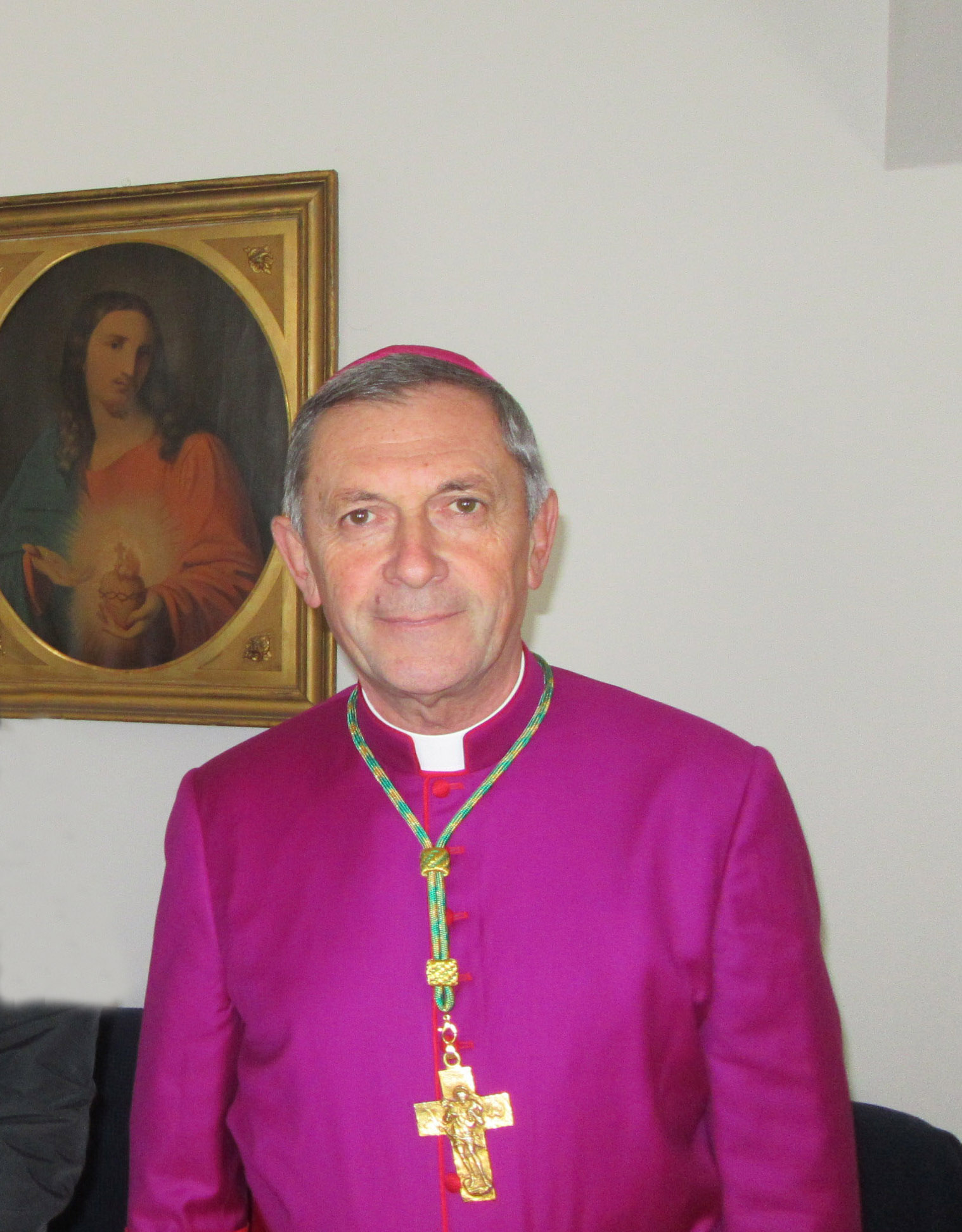 Bishop of Mondovì, Egidio Miragoli, on Nov. 19th, 2017